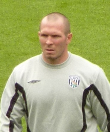 Michael Appleton, an English football coach and former footballer